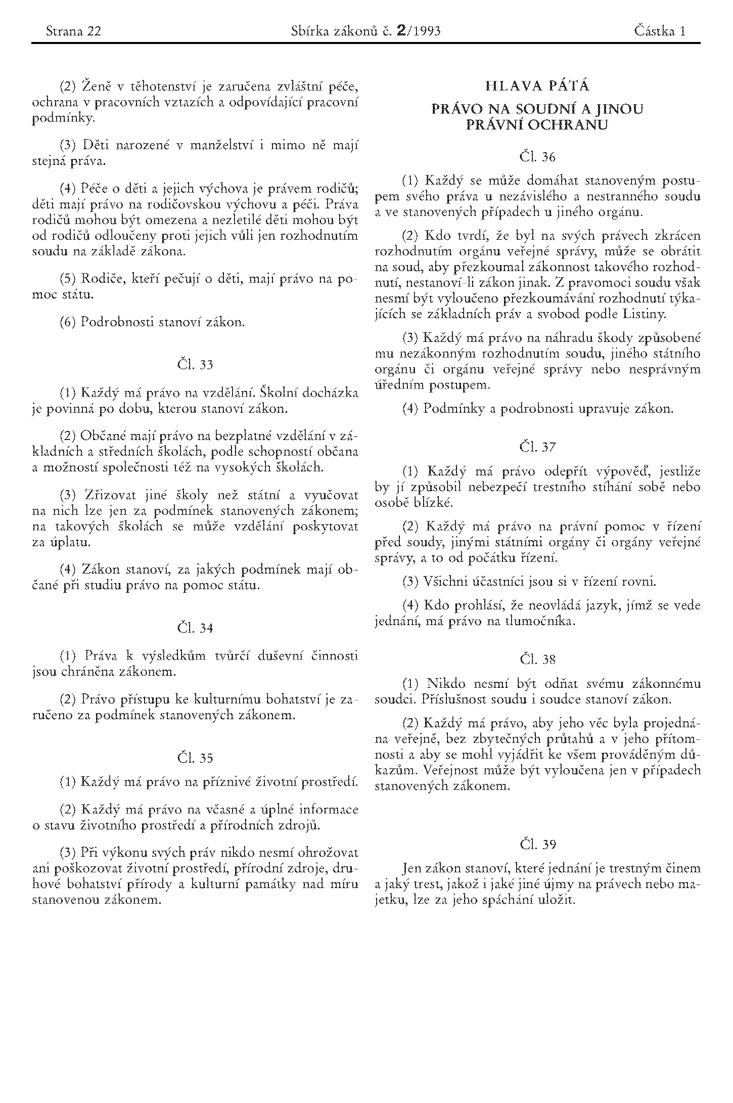 Czech Collection of Laws' official issue with the 1993 Constitution No. 1/1993 Coll. Česky: Stejnopis Sbírky zákonů s Ústavou České republiky (1/1993 Sb.) a Listinou základních práv a svobod (2/1993 Sb.)